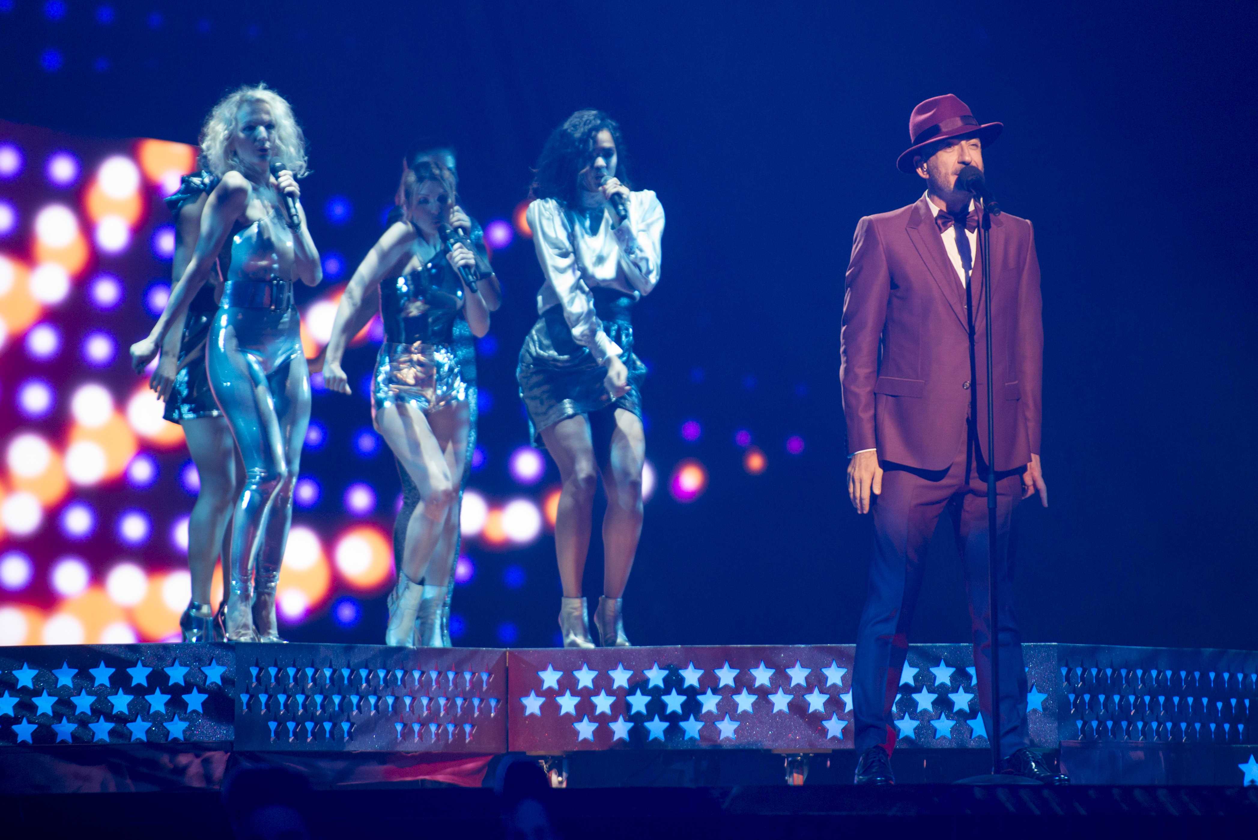 Serhat representing San Marino with the song "I Didn't Know" during a rehearsal before the first semi final of the Eurovision Song Contest 2016 in Stockholm. (Help translate this text)